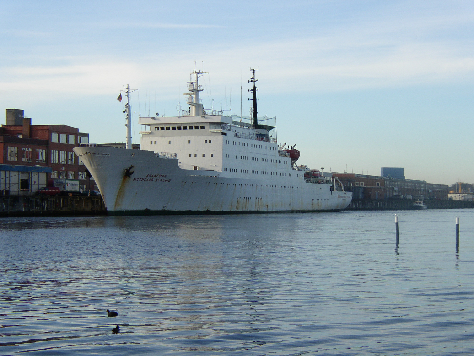 Akademik Mstislaw Keldysch at the IFM-GEOMAR Pier in Kiel